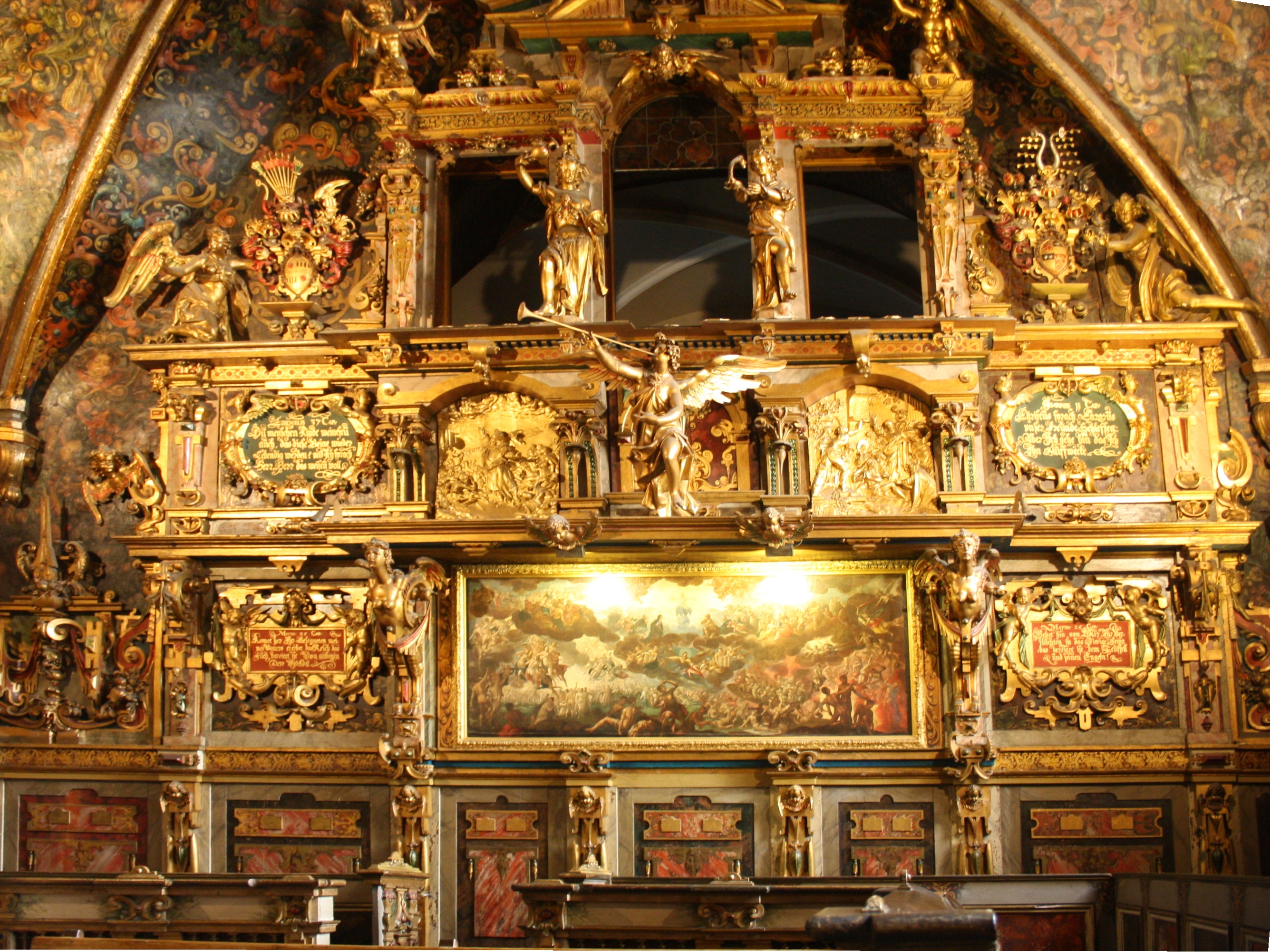 Castle in Bückeburg, Germany. Chapel.